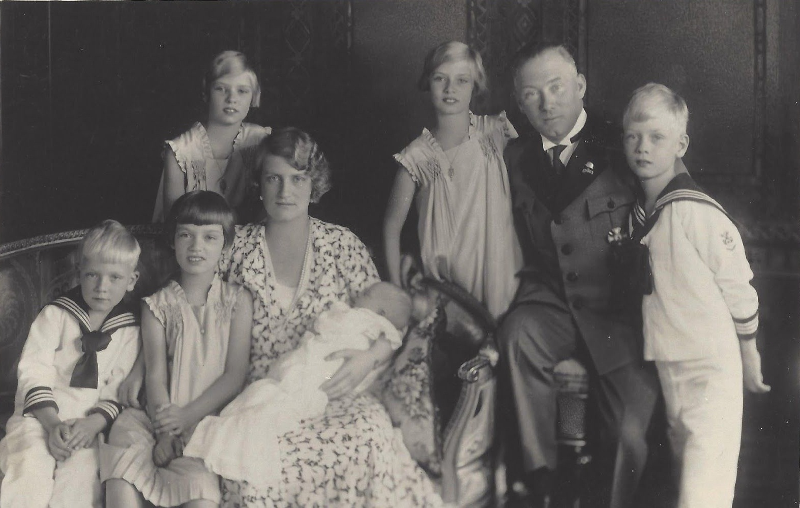 Frederick, Prince of Hohenzollern with his wife Princess MargareteKarola of Saxony and their six children: Benedikta, Maria Adelgunde, Maria Theresia, Friedrich Wilhelm, Franz Josef and Johann Georg